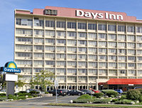 The hotel that EerieCon is held at.